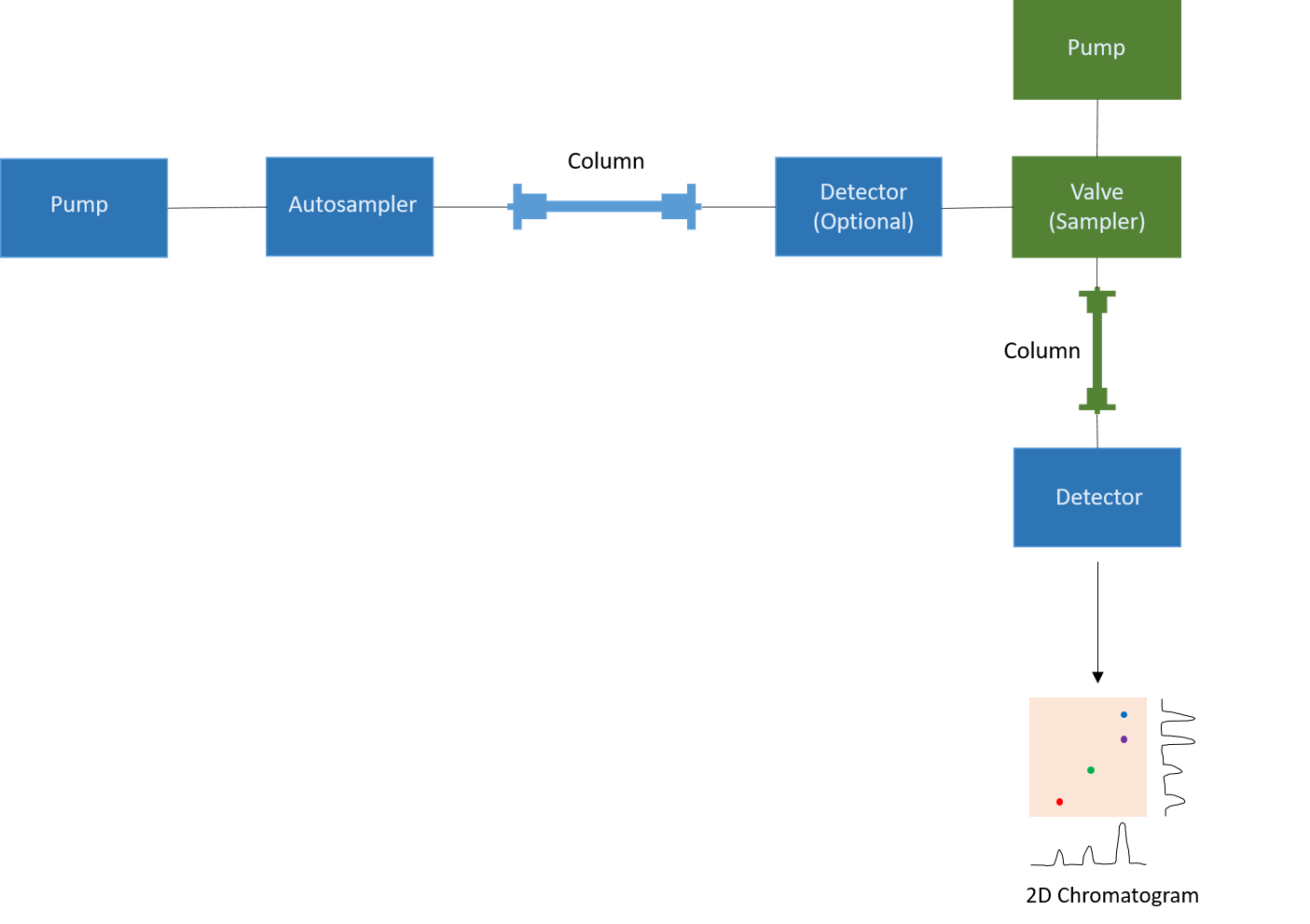 Block Diagram of 2D LC